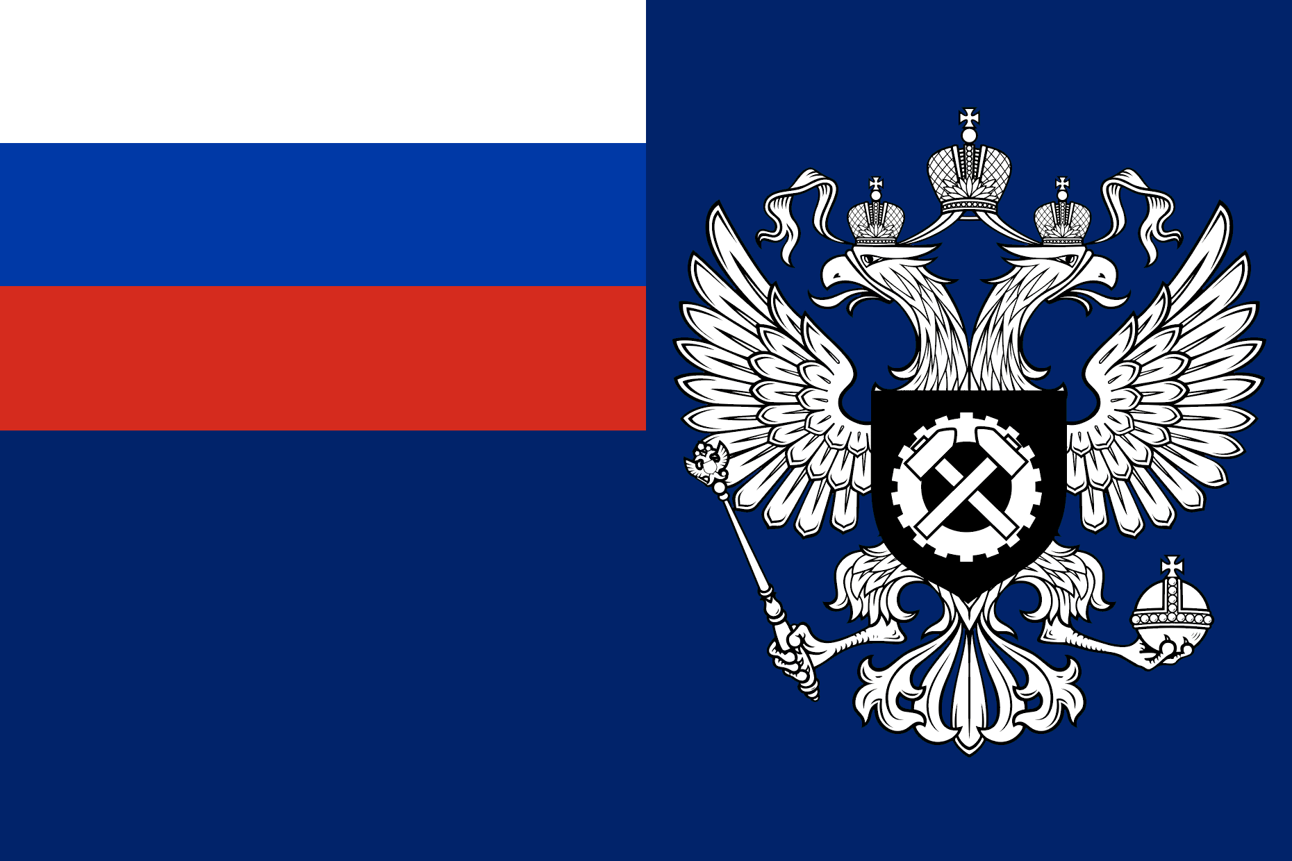 Flag of the Rostrud, Russian Federation